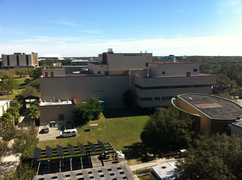 Engineering complex at the University of South Florida.